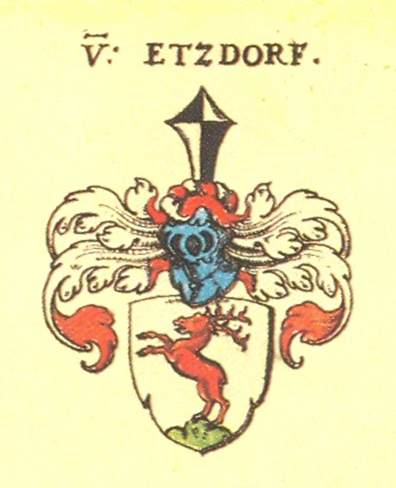 Coat of arms of Etzdorf